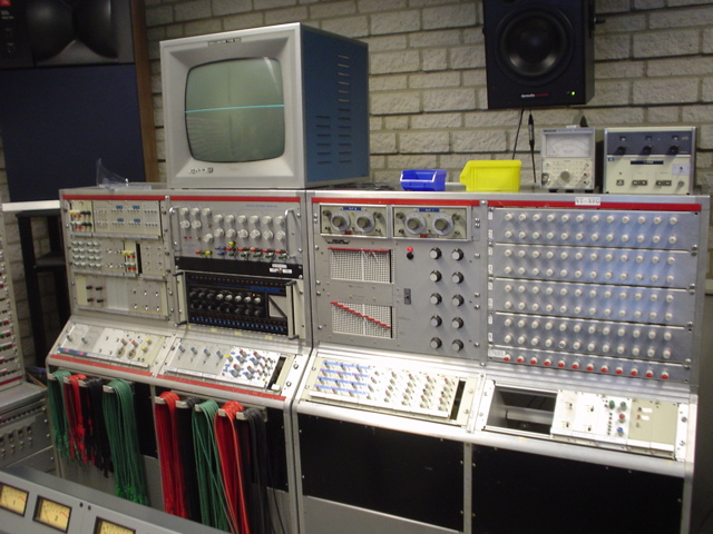 8 September 2006 A few racks of analog gear in BEA 5 at Sonology in the Royal Conservatory of the Netherlands in The Hague. At the far left are AM modules, ring modulators and some unusual custom stuff. Then, an oscilloscope and a 20 channel vocoder. Then a third octave filter, and finally a sequencer. On top is some HP test equipment.